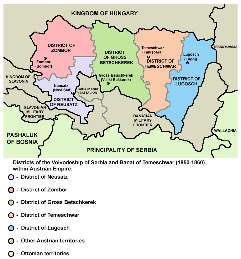 Disctricts of the Voivodeship of Serbia and Banat of Temeschwar (1850-1860).